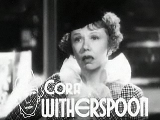 Cropped screenshot of Cora Witherspoon in the trailer for the film Dangerous Number